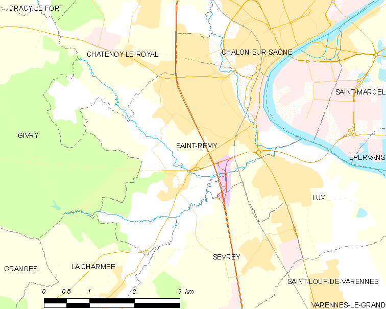 Map of French municipality